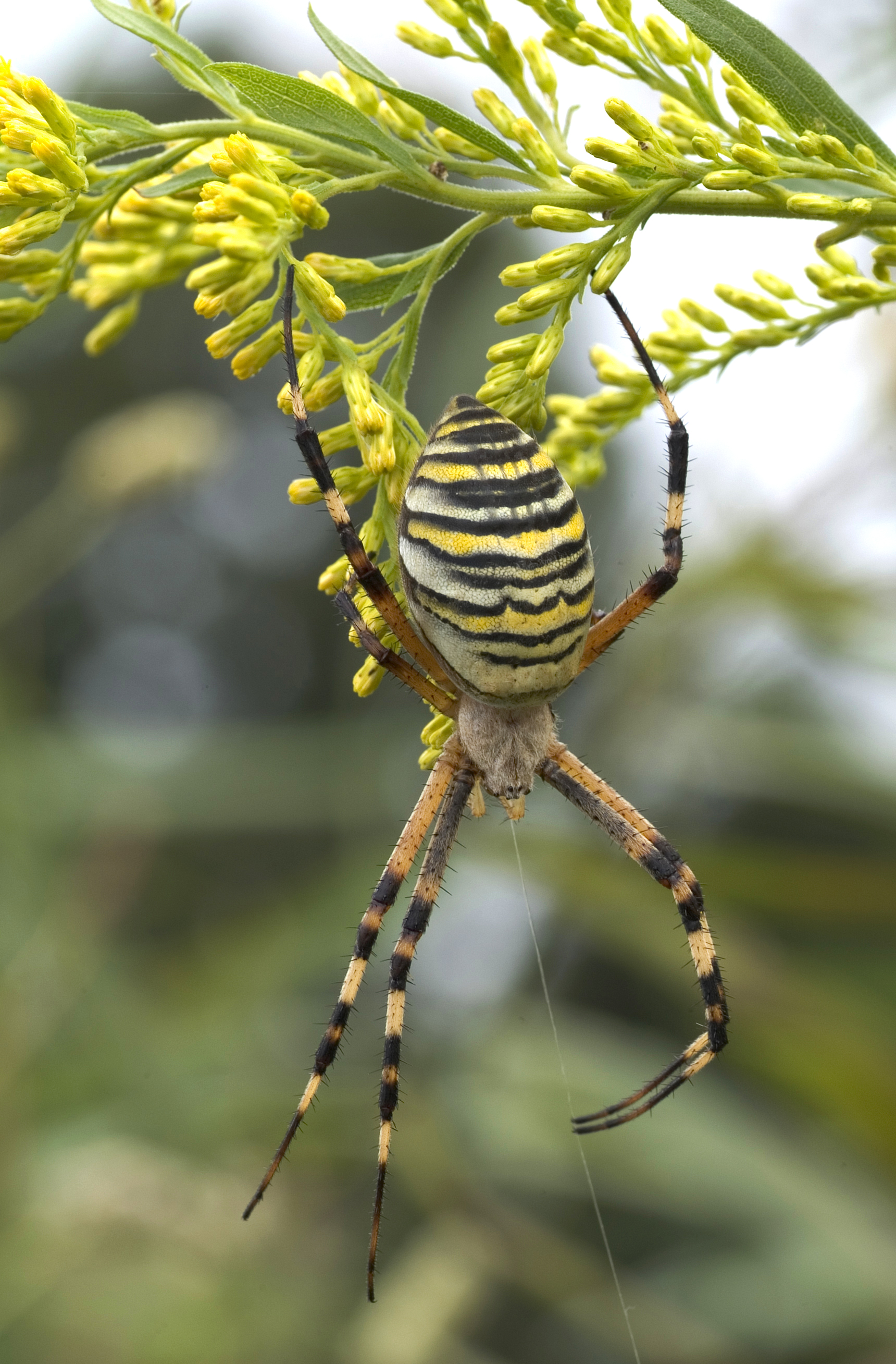 Wasp spider (Argiope bruennichi), Saitama, Japan